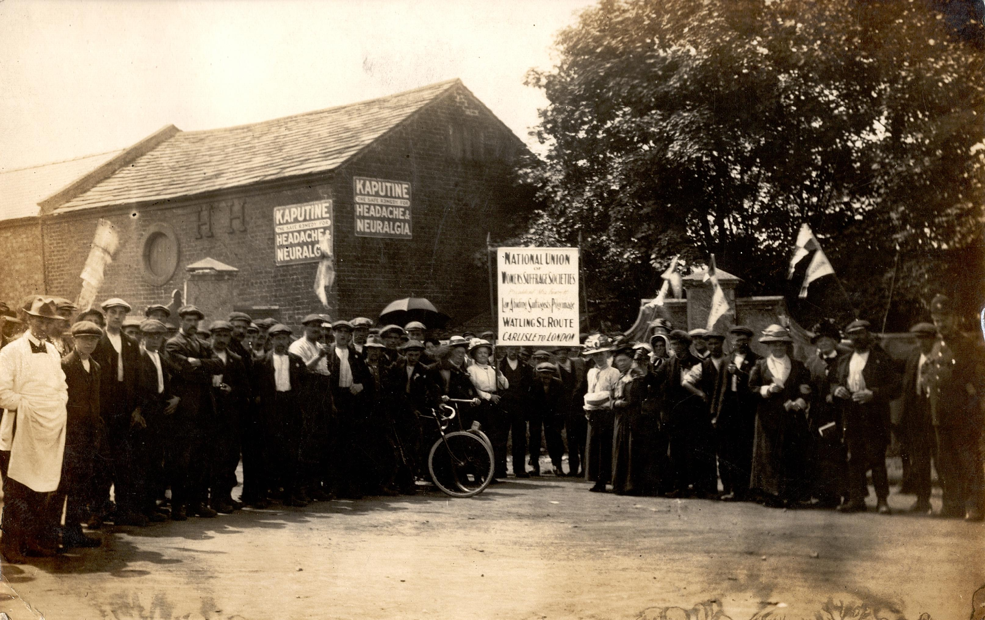 Women's pilgrimage, 1913 NUWSS Carlisle to London route